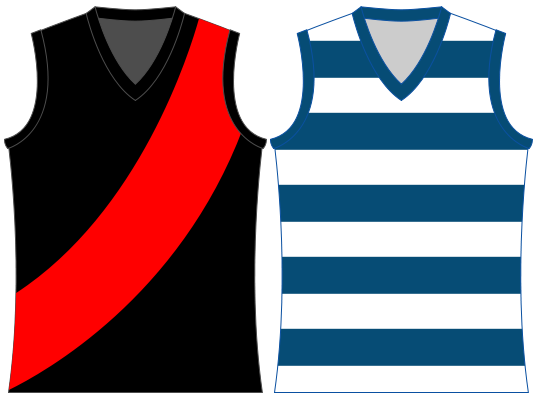 Lauderdale Bombers Home Jumper and Clash/Alternate Jumper